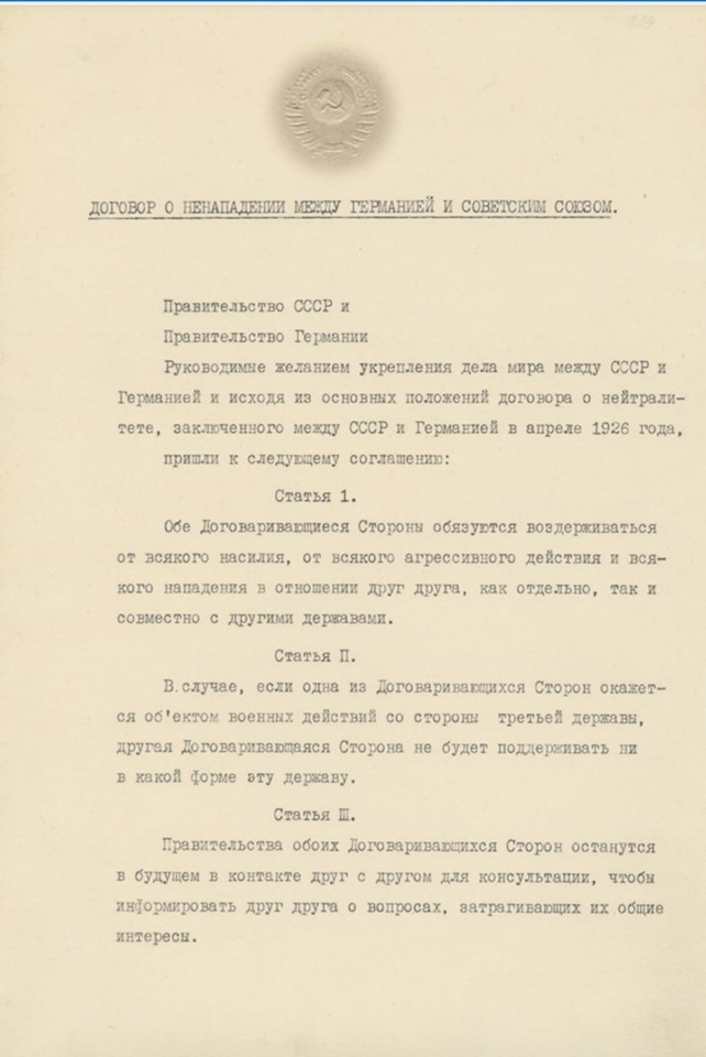 Molotov–Ribbentrop Pact 1st Page in Russian